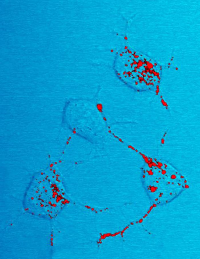 Produced by the National Institute of Allergy and Infectious Diseases (NIAID), this photomicrograph of a neural tissue specimen, harvested from a scrapie affected mouse, revealed the presence of prion protein stained in red, which was in the process of being trafficked between neurons, by way of their interneuronal connections, known as neurites.